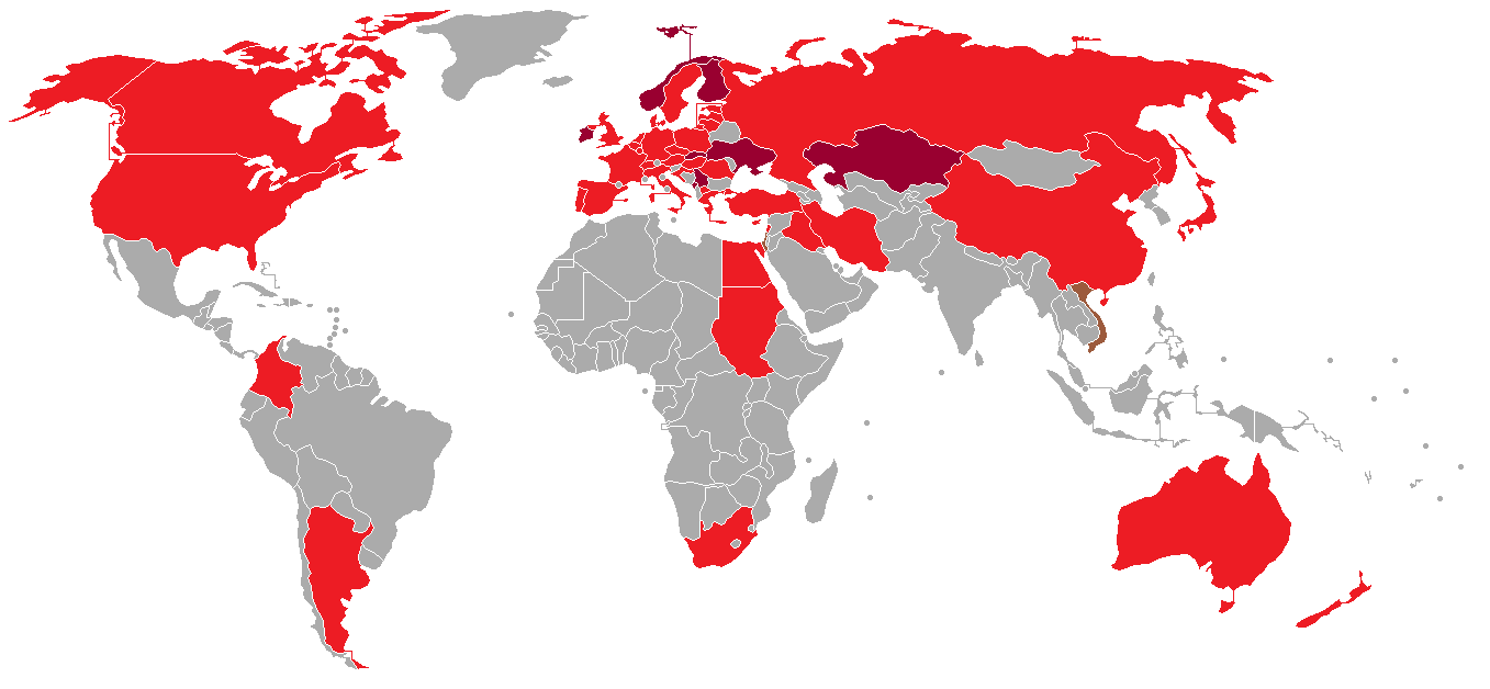 Members of the International Association for Cereal Science and Technology. Members Temporarily suspended Observer